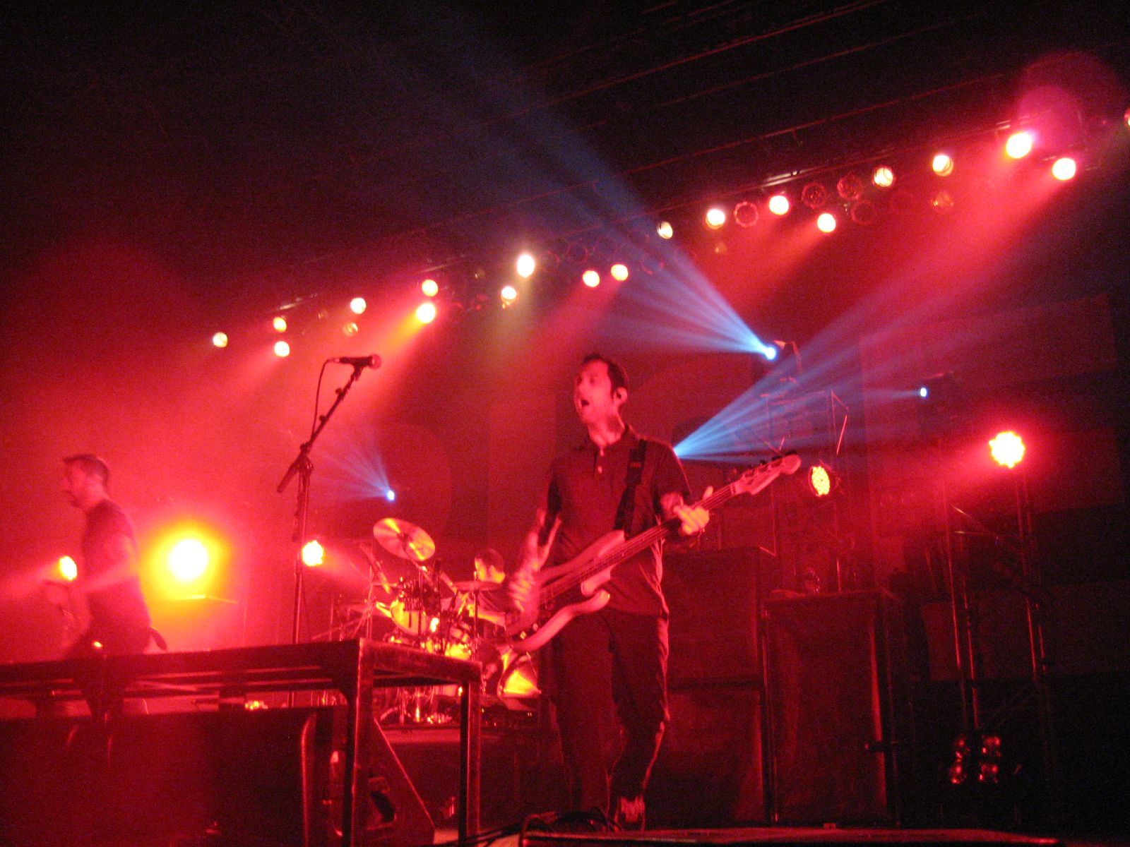 Picture of Rise Against playing live at the Roseland Ballroom, New York on October 14, 2008 in support of their album, Appeal to Reason